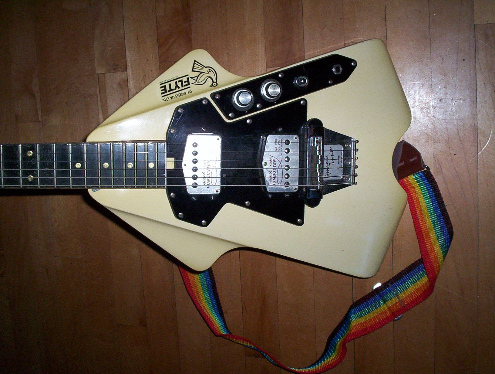 Picture of a Burns Flyte guitar